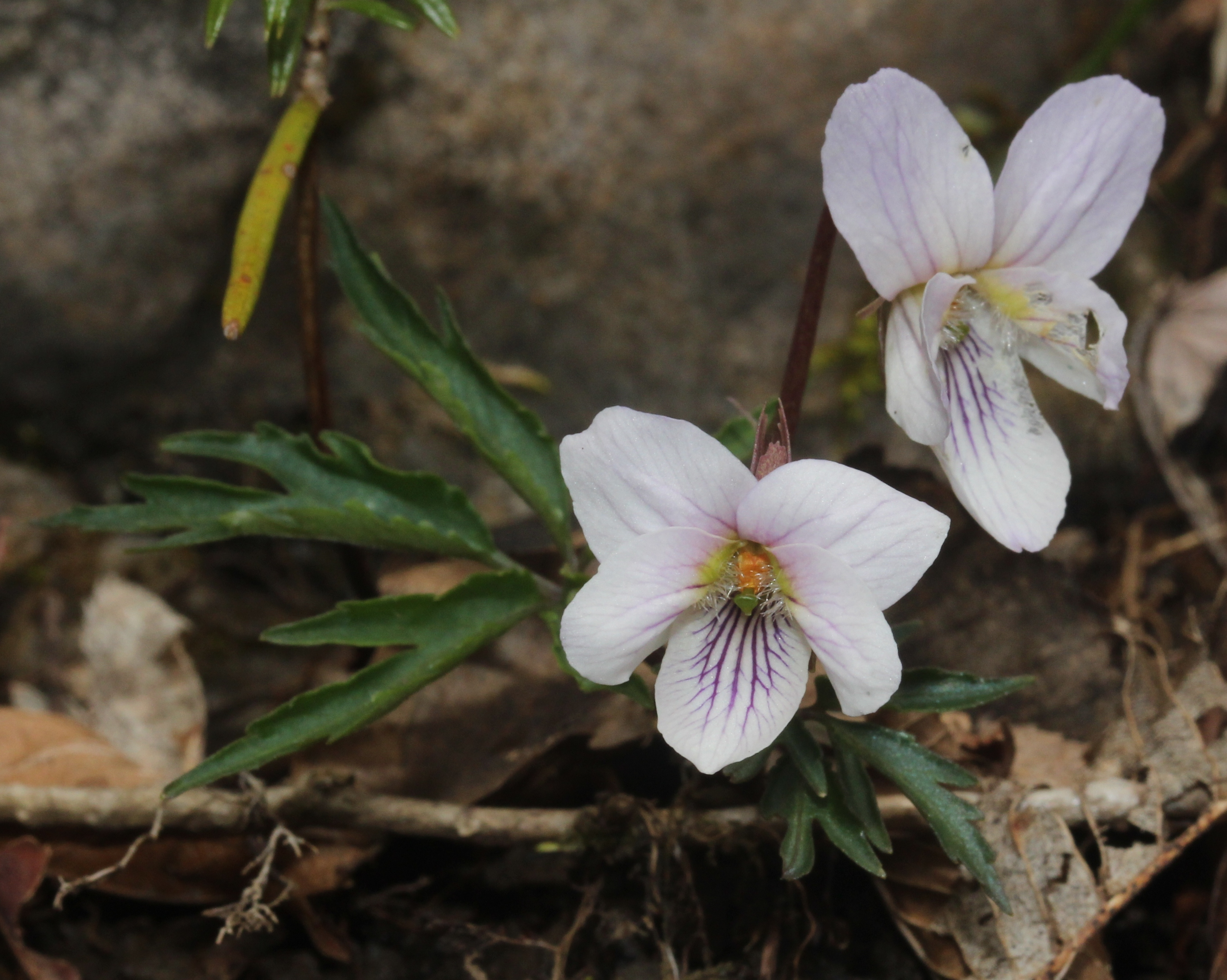 Viola eizanensis in Mount Funabuse, Gifu Prefecture, Japan.